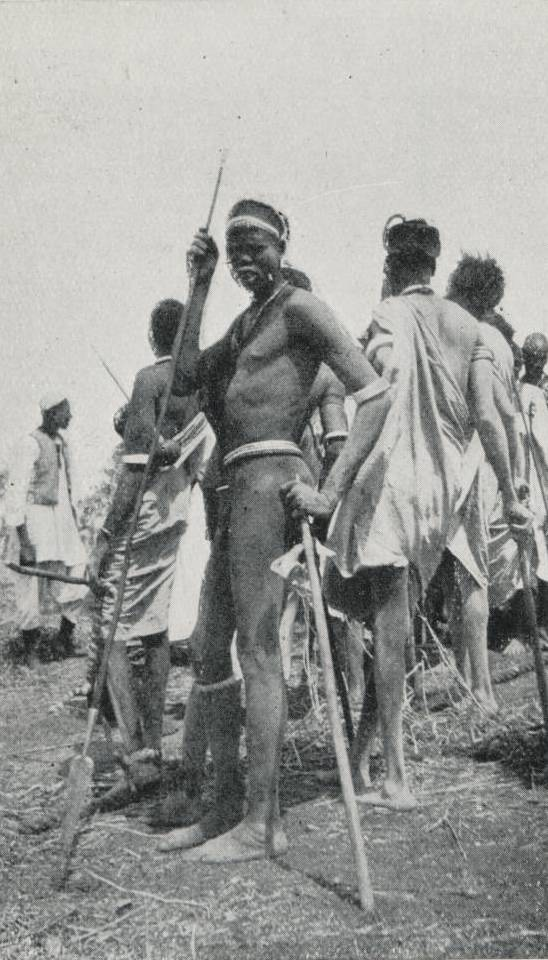 A Shilouk man dressed in a loincloth and leaning against a spear, with other men In long shirts facing away.